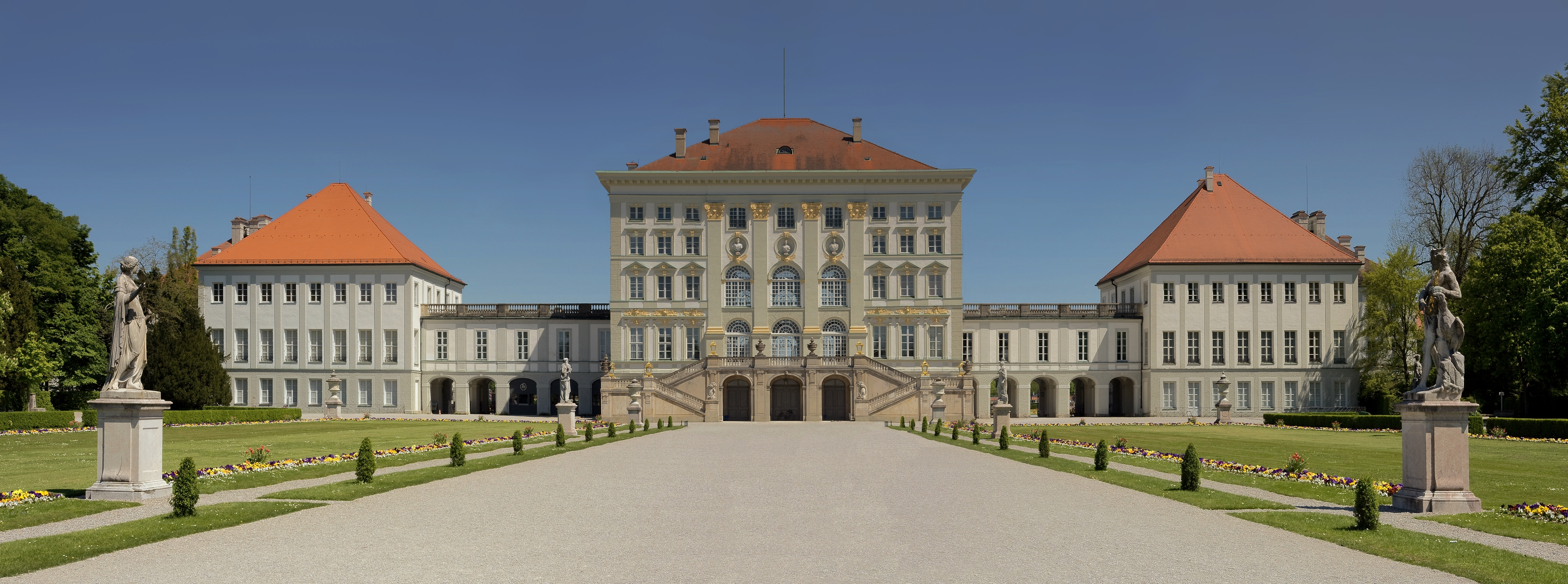 The Nymphenburg Palace (German: Schloss Nymphenburg) is a Baroque palace in Munich, Bavaria, Germany. The palace was the summer residence of the rulers of Bavaria.